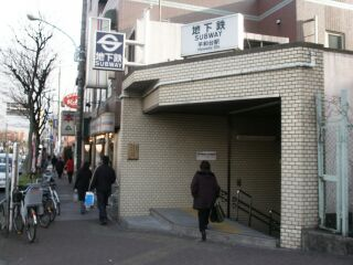 Heiwadai Station entrance before privatization of Eidan